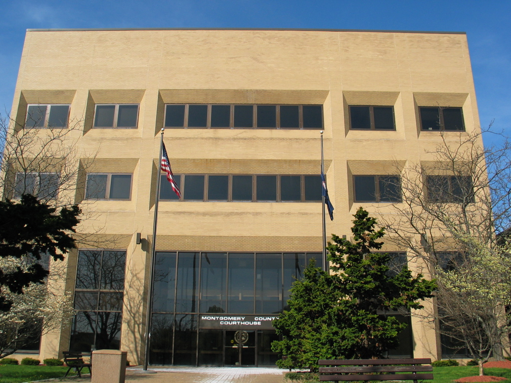 The Current Montgomery County Courthouse; Christiansburg, VA